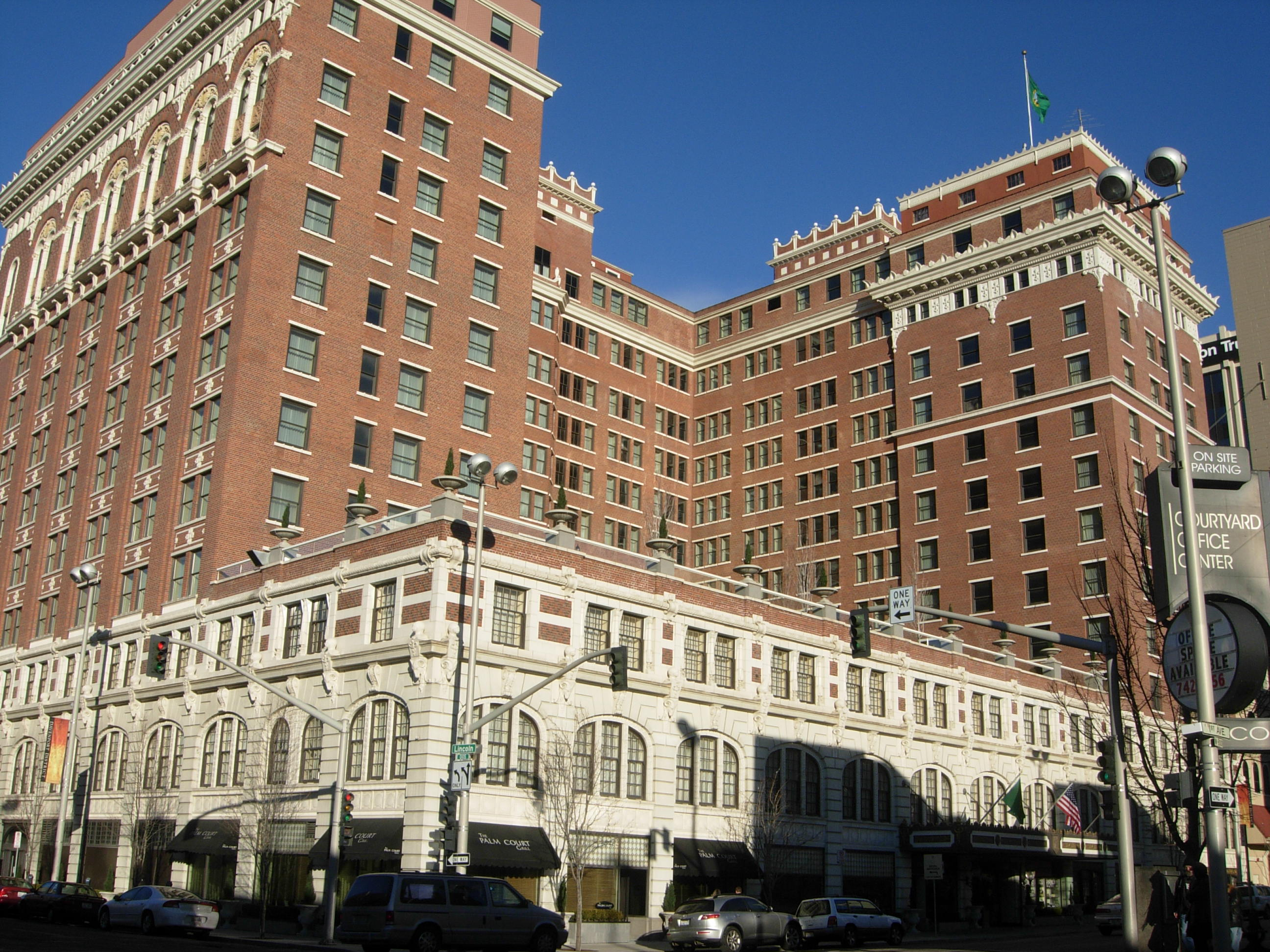 The Davenport Hotel in Spokane, Washington